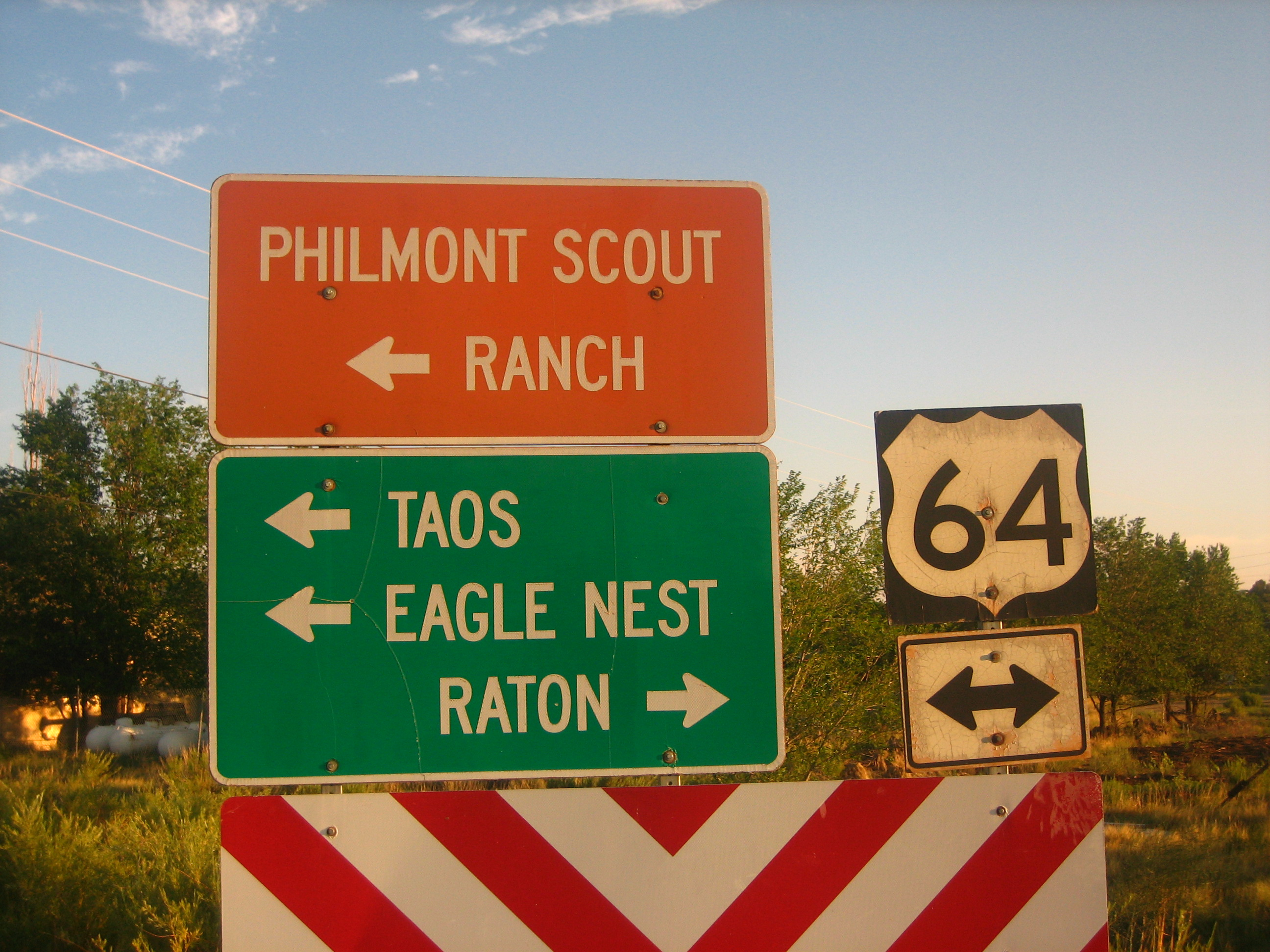 U.S. Highway 64 in Cimarron, New Mexico